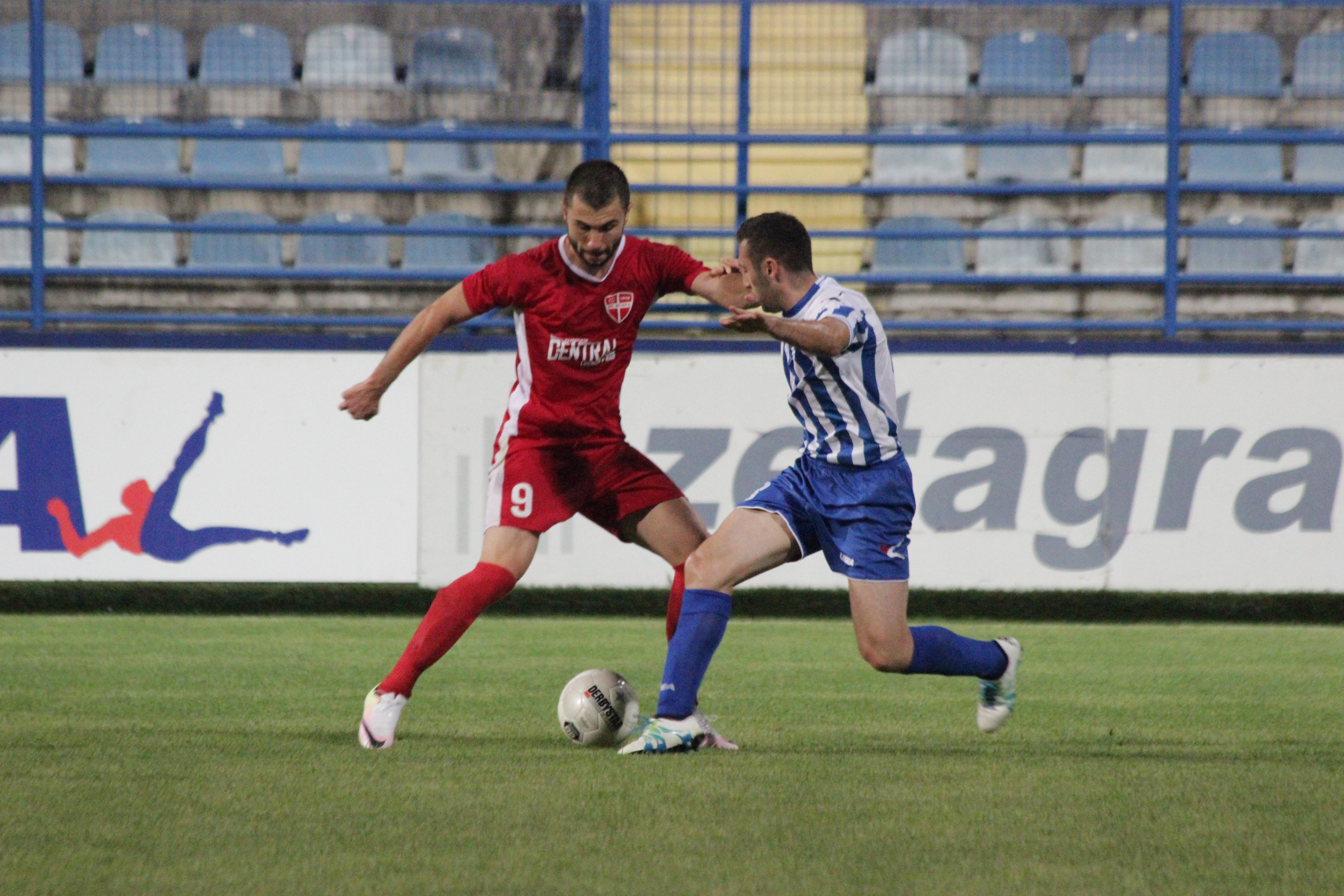 Buducnost Iskra in 06.08.2016.